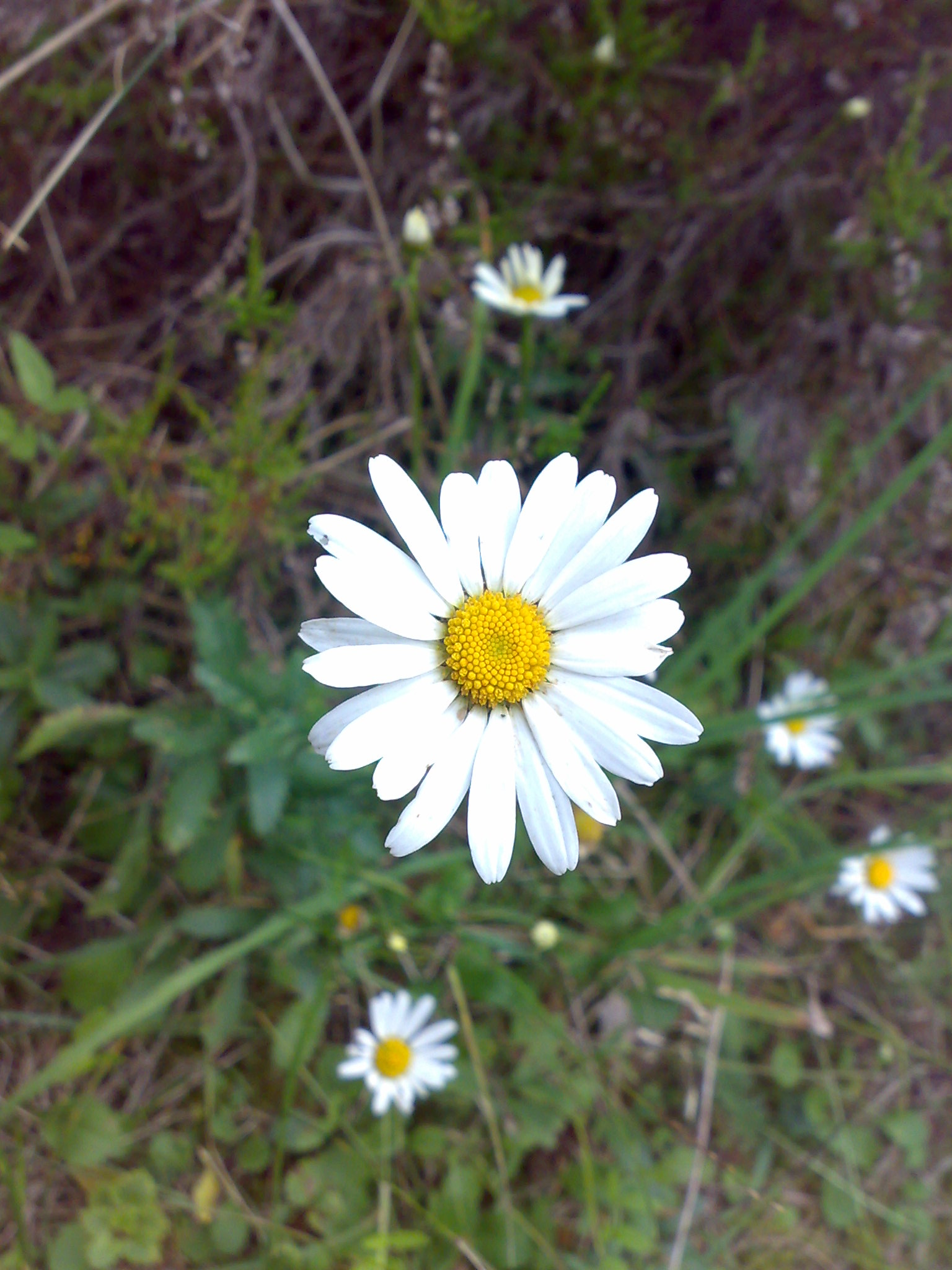 Leucanthemum vulgare Hurum, Norway